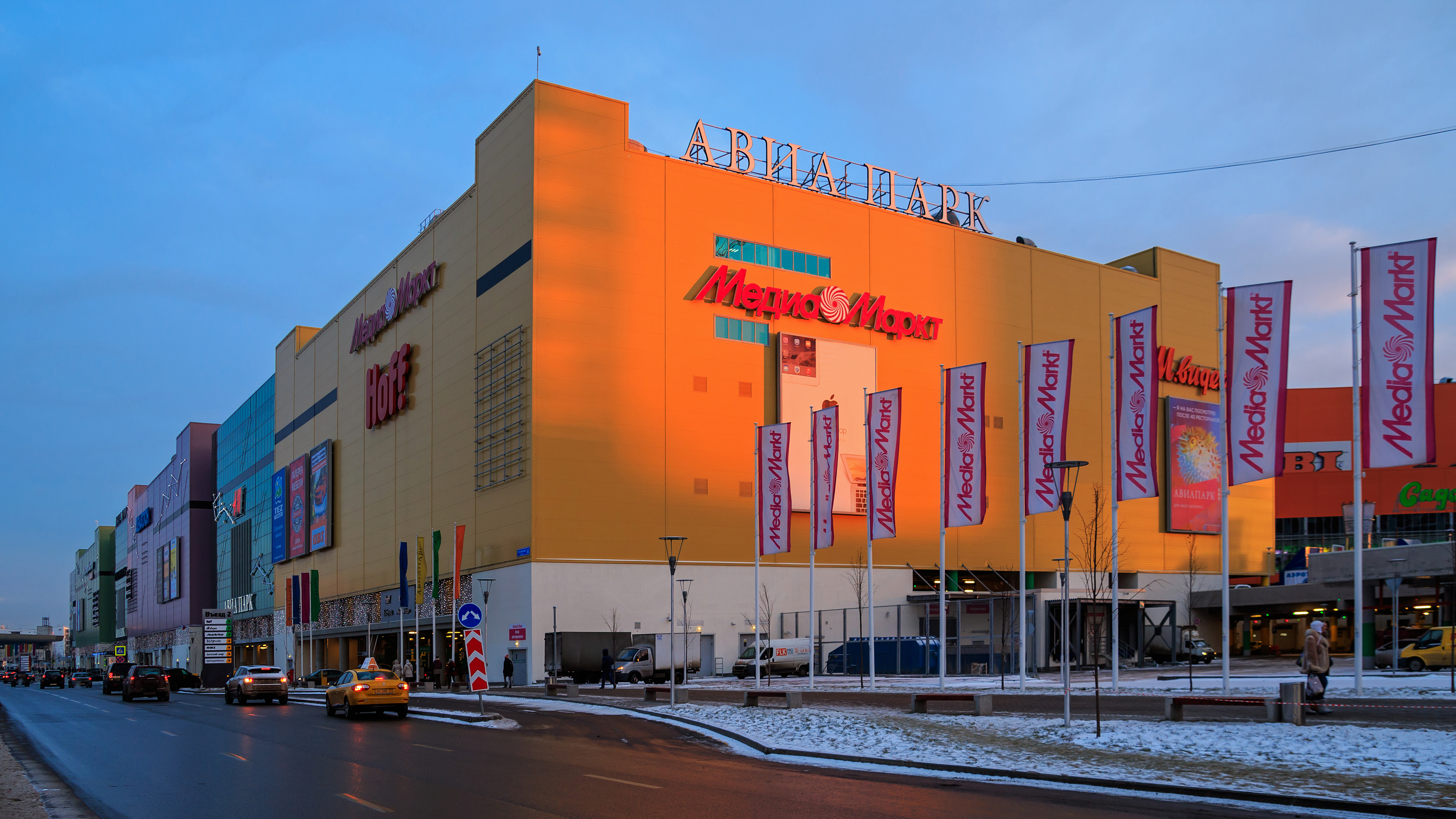 Exterior of AviaPark mall in Moscow